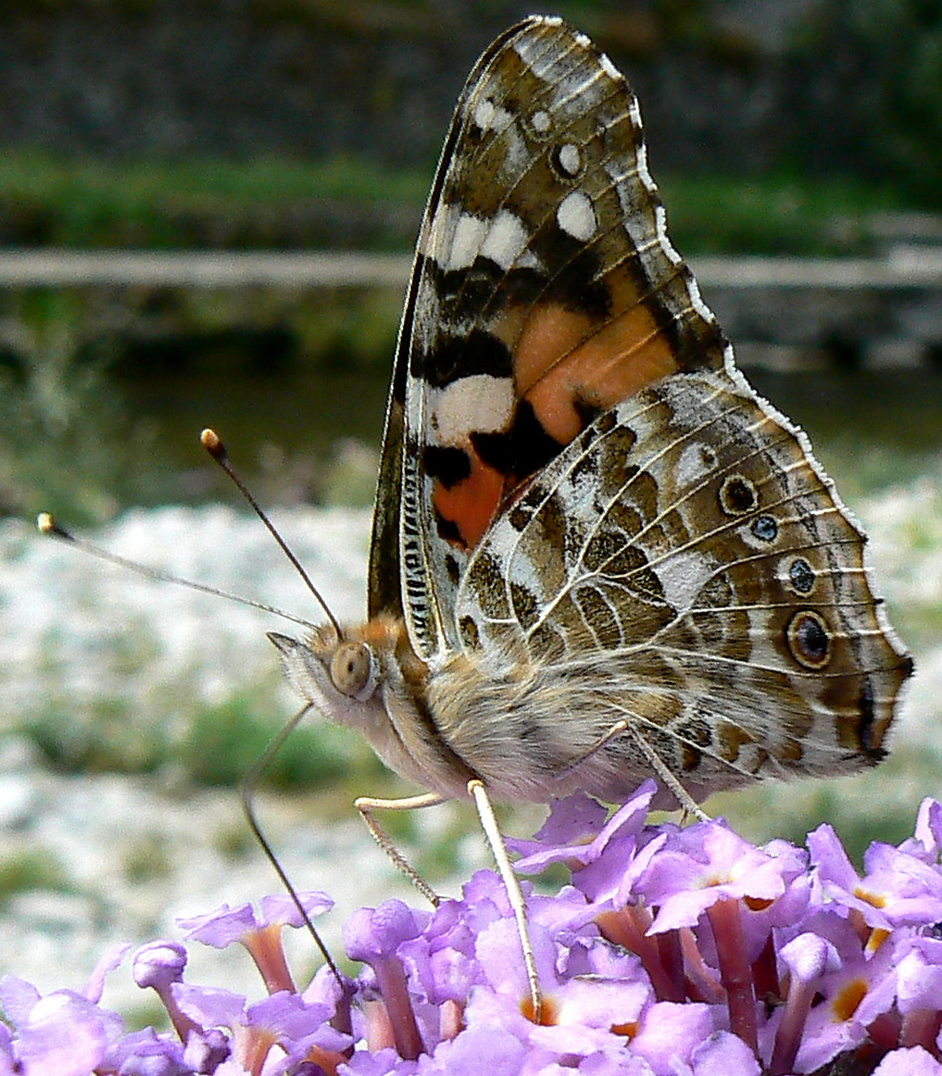 Vanessa cardui, feeding on Buddleya at the shore of the river Bourne, Pont-en-Royans, France